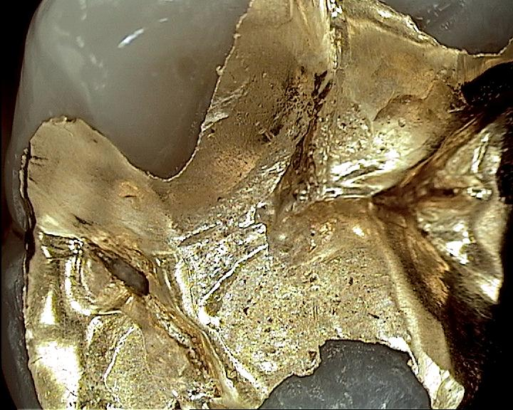 Intraoral closeup view of filling